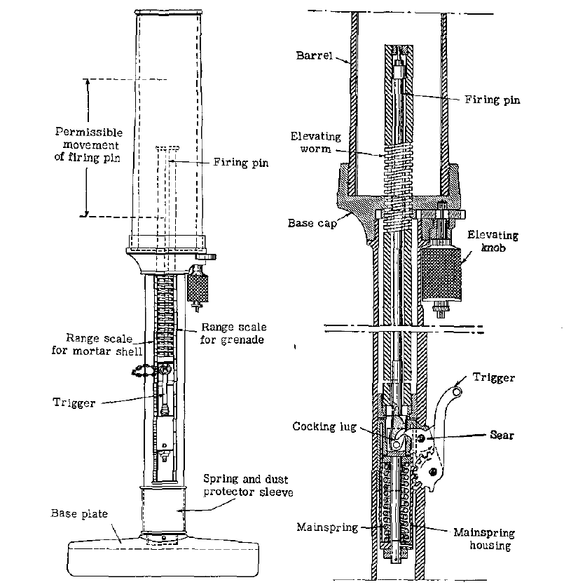 diagranmmatic drawings of Model 89 (1929) 50-mm grenade discharger, showing range scales (left) and cross section of firing mechanism (right)